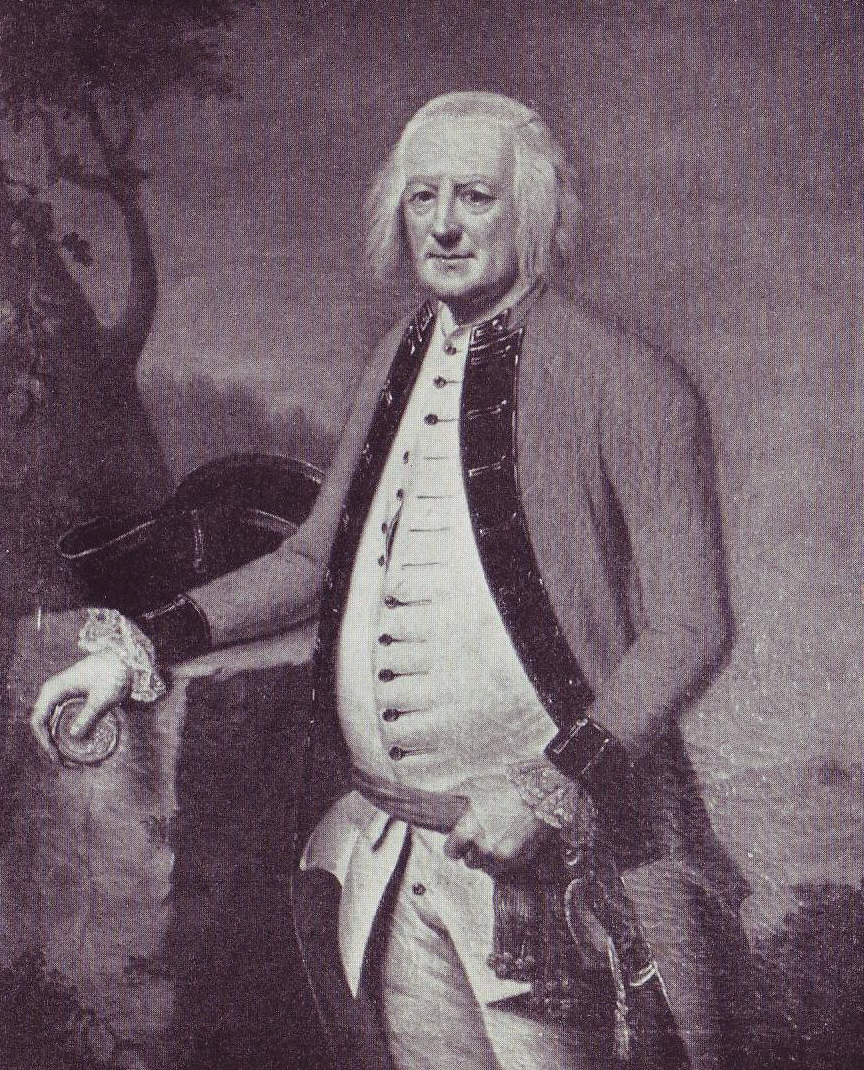 Painting depicts Generalfeldmarschall August Friedrich von Spörcken, who was a popular military leader during the Seven Years War (1756-1763)